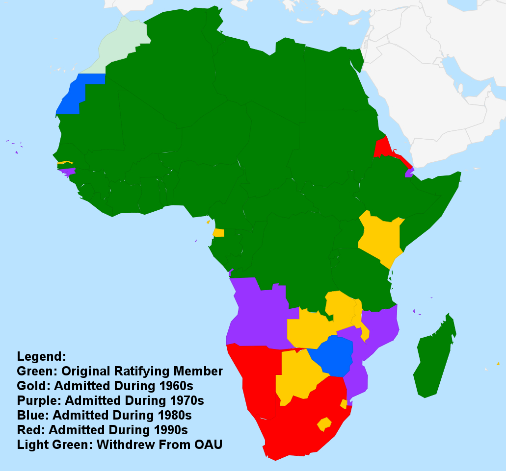 Organization of African Unity Map